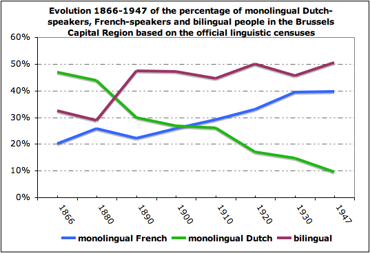 Evolution between 1866 and 1947 of the percentage of monolingual Dutch-speakers, French-speakers and bilingual people in the Brussels Capital Region based on the official linguistic censuses